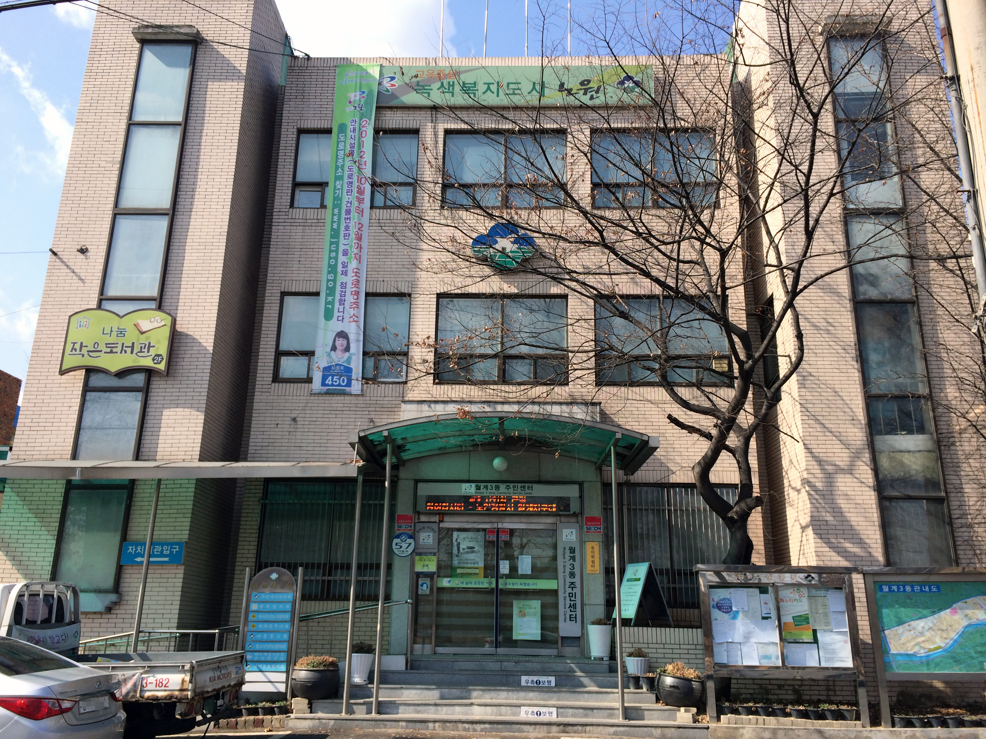 Wolgye 3-dong Comunity Service Center (Nowon-gu)